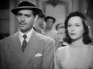 Cropped screenshot of Clark Gable and Hedy Lamarr from the trailer for the film Comrade X